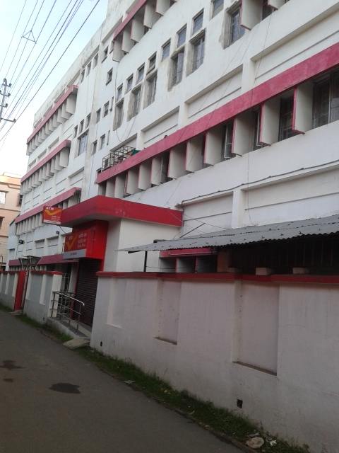 serampore HO